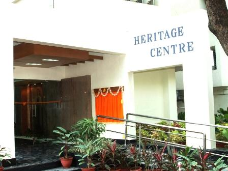 Entrance of the Heritage Center at IIT Madras